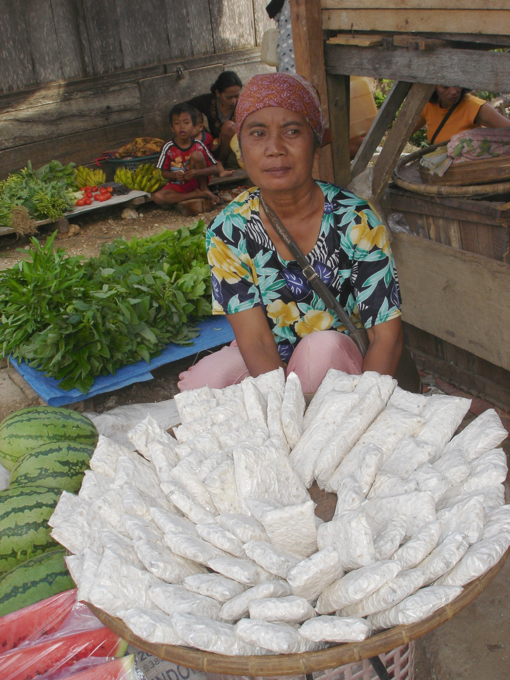 tempeh seller and her product at a market in northern Buton Island, Indonesia